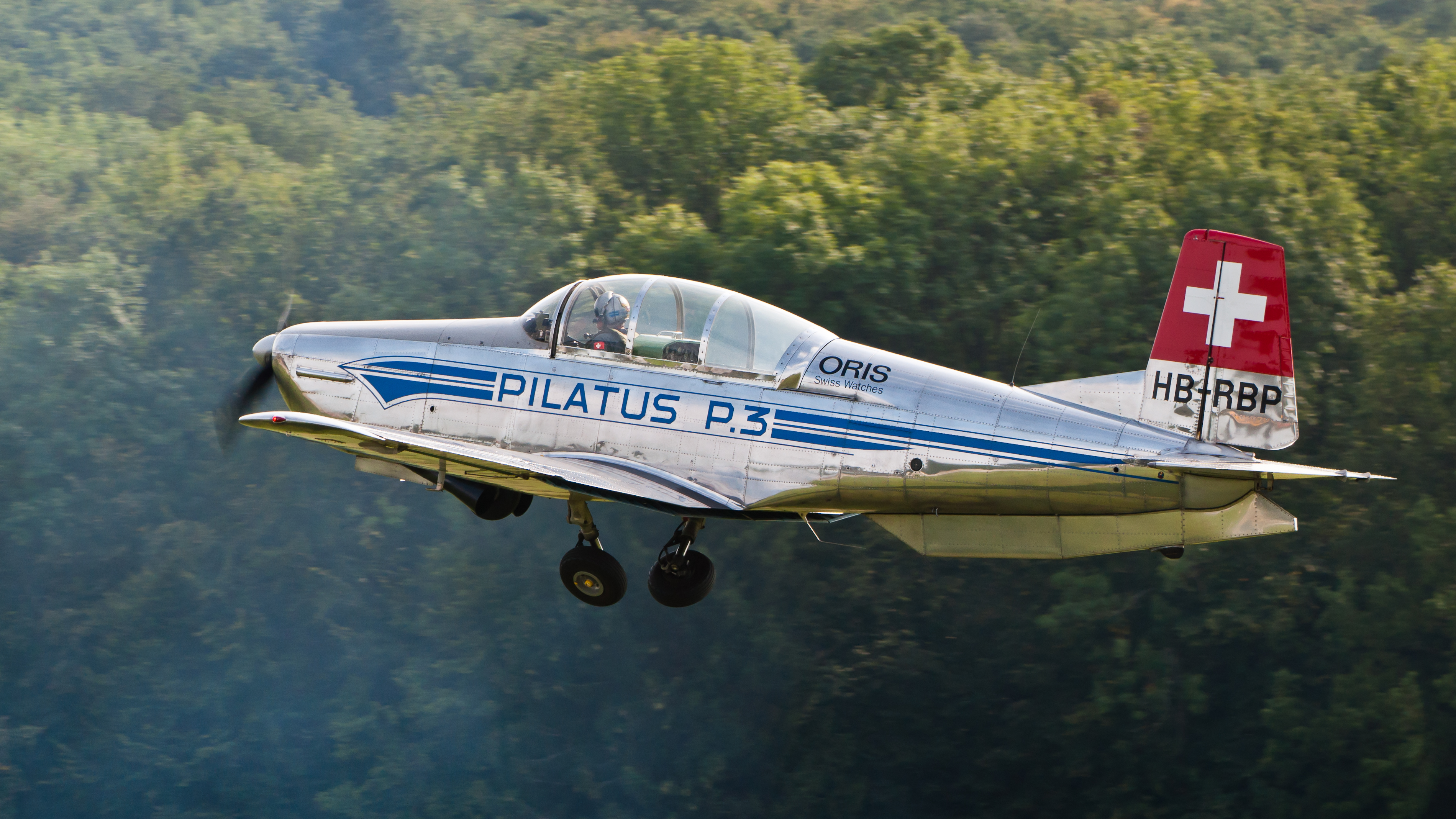 Pilatus P3-03 of the P3-Flyers (reg. HB-RBP, cn 473-22, built in 1958). Engine: Lycoming GO435-C2-A2.